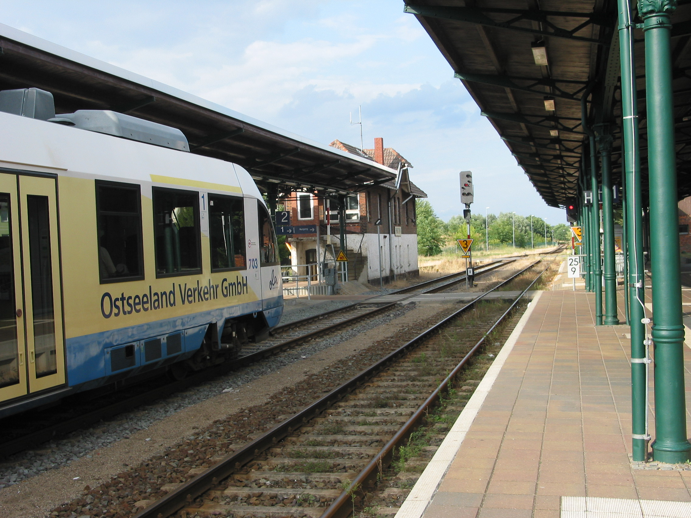 Station Parchim in Mecklenburg, Germany with interlocking tower and passenger train Lint 41 in direction to Schwerin